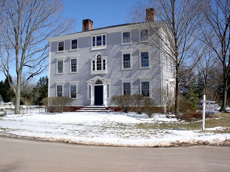 The 1788 John Watson House in the East Windsor Hill section of South Windsor, Connecticut.